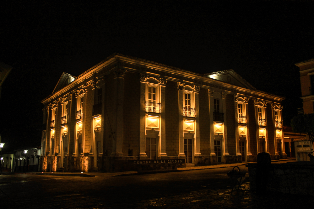 The Junchavin Theater it is located near of Benito Juarez in the Magic Town of Comitan of Dominguez.